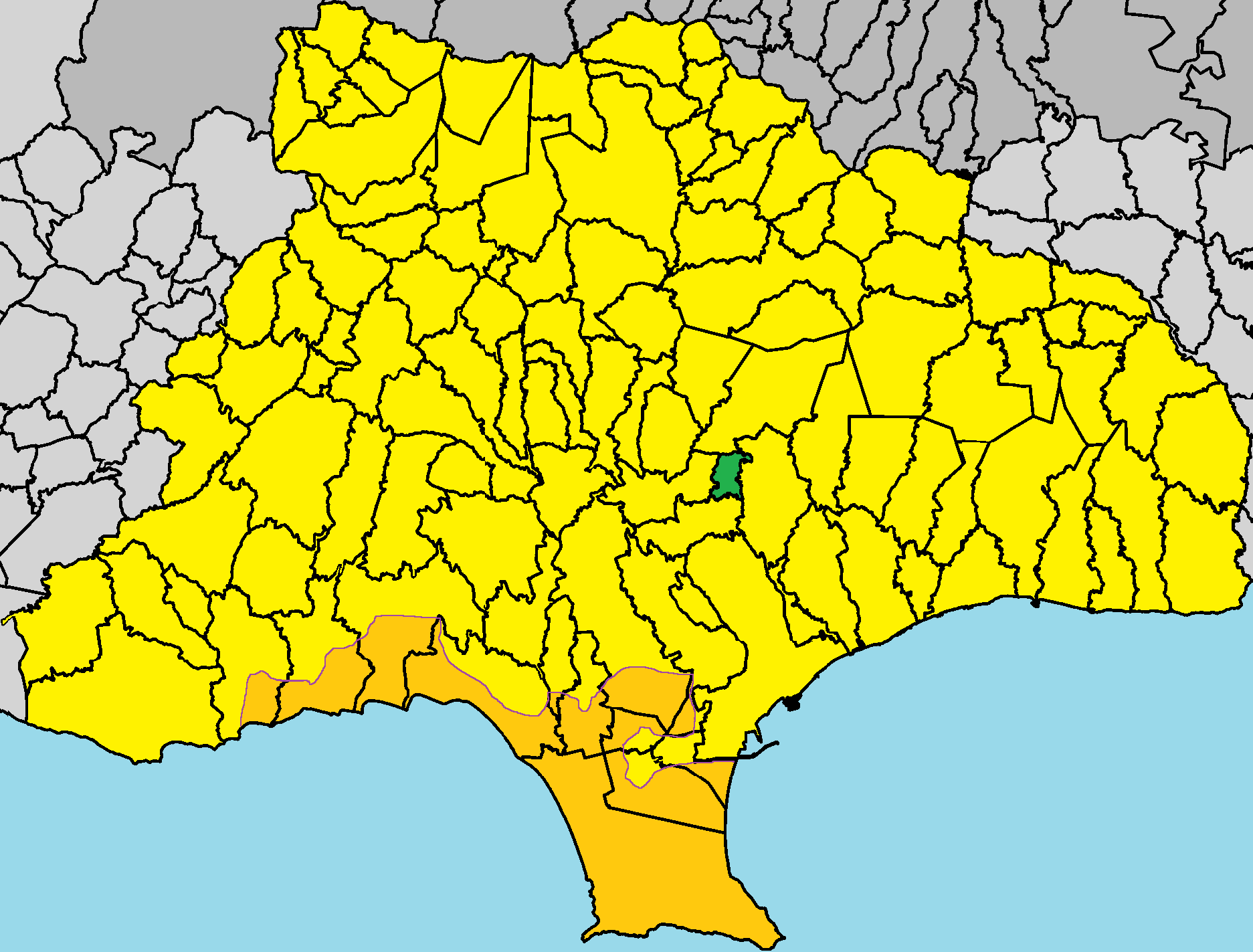 Spitali in Limassol District.